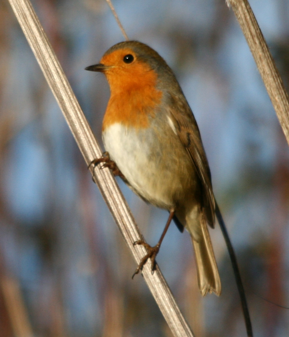 Seasonally appropriate bird photo